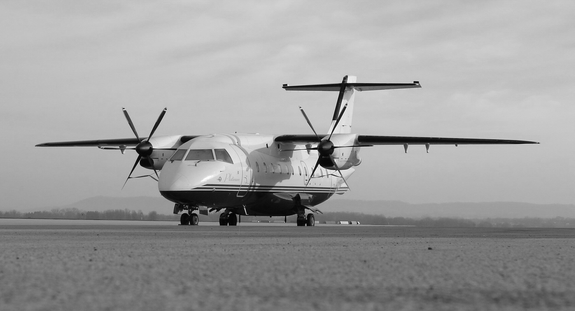 Black and White XVI